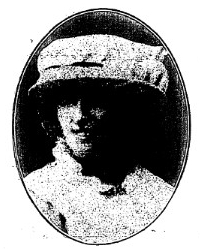 Portrait of the women's suffragist and first british accountant, Ethel Aryes Purdie, published in her obituary in the feminist newspaper 'The Vote'.